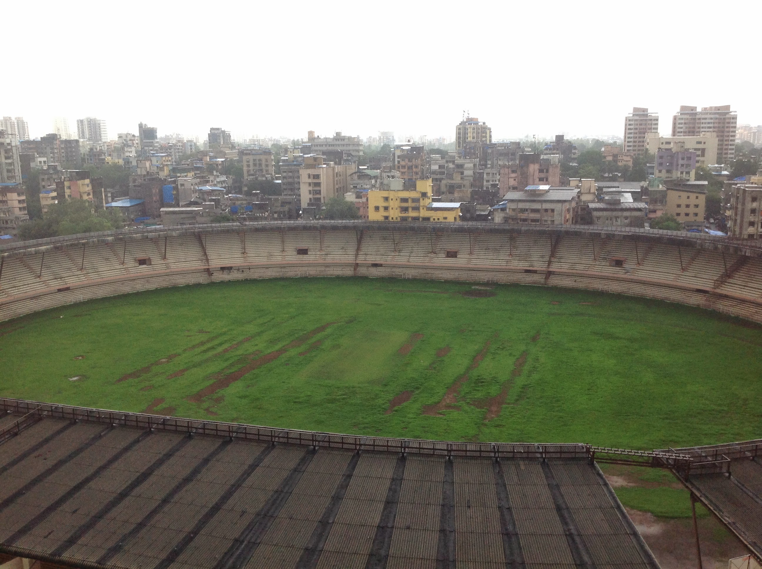 Overhead view of Dadoji Kondadev Stadium in Thane, Maharashtra, India. Taken from the South.